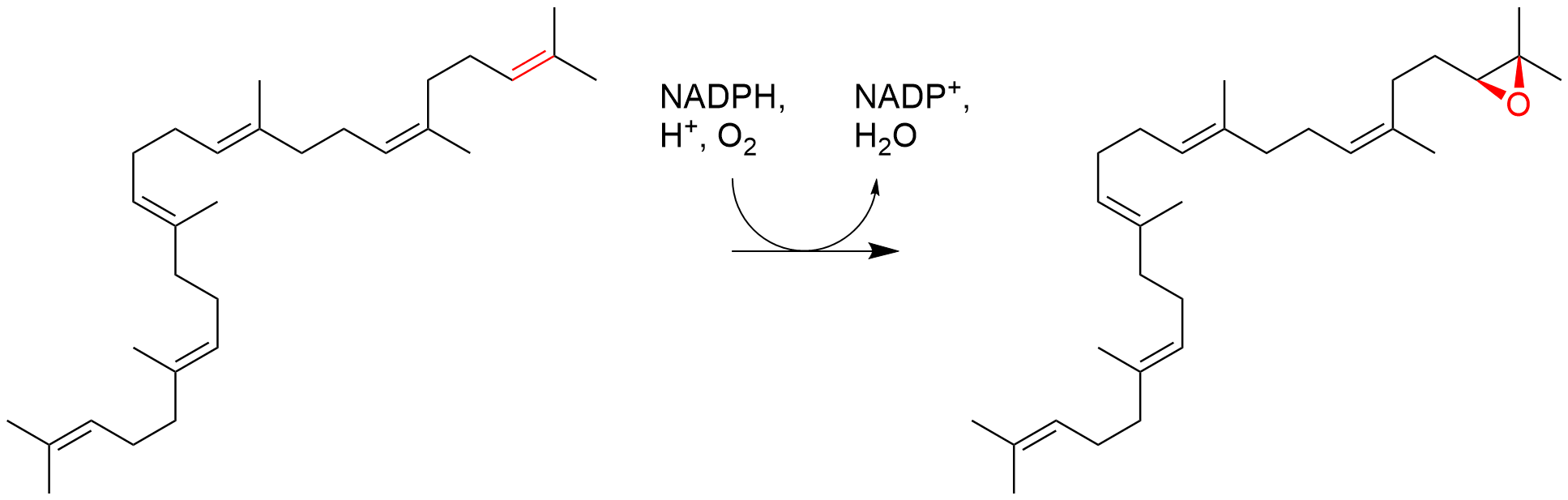 Reaction of squalene to squalene oxide (promoted by squalene monooxygenase)